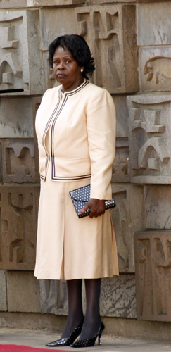 Kenyan first lady Lucy Kibaki during the opening of the 9th Parliament.